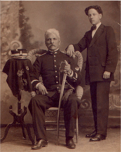 Eduardo Martínez Celis with his father, Lieutenant Colonel Domingo Martínez Barrón